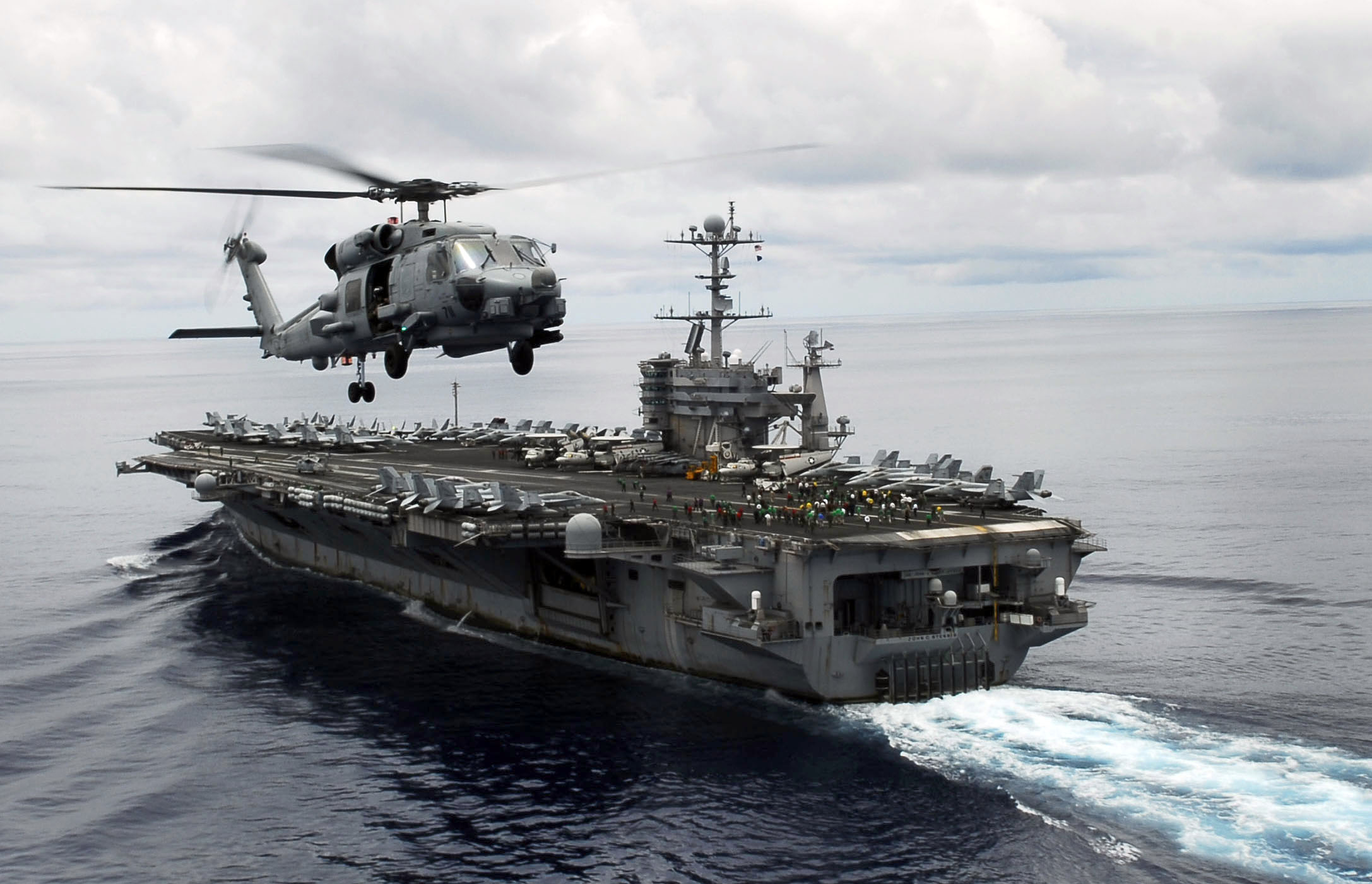 PACIFIC OCEAN (May 26, 2009) An MH-60R Sea Hawk helicopter from the "Raptors" of Helicopter Maritime Strike Squadron (HSM) 71 circles the aircraft carrier USS John C. Stennis (CVN 74) during flight operations. John C. Stennis and Carrier Air Wing (CVW) 9 are on a scheduled six-month deployment to the western Pacific Ocean. (U.S. Navy photo by Mass Communication Specialist 3rd Class Josue L. Escobosa/Released)